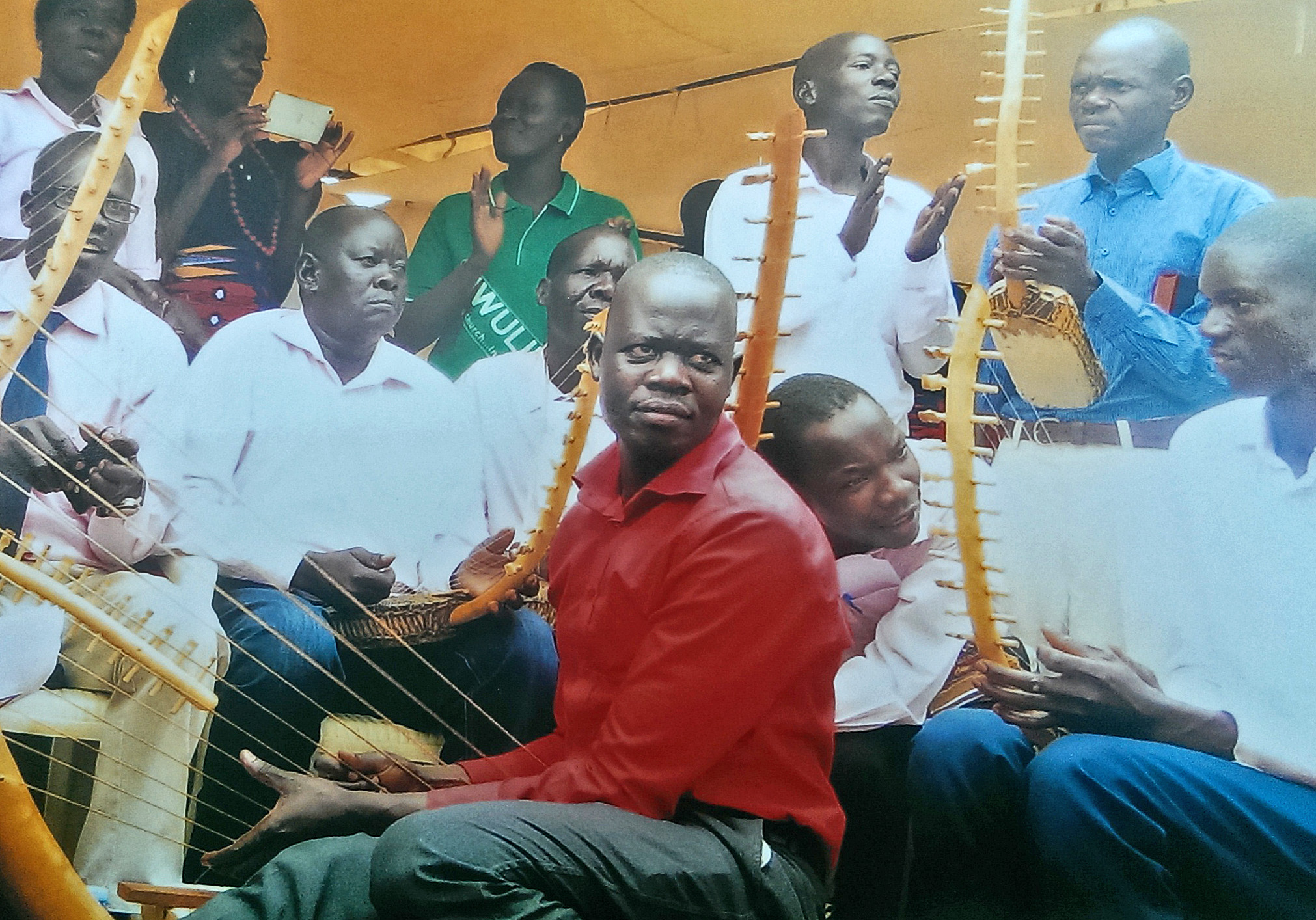 It's a service that is led traditionally, in Acholi, Lango, Alur languages, the choir uses the bow harp(adungu) This is an image with the theme "Play" from: Uganda